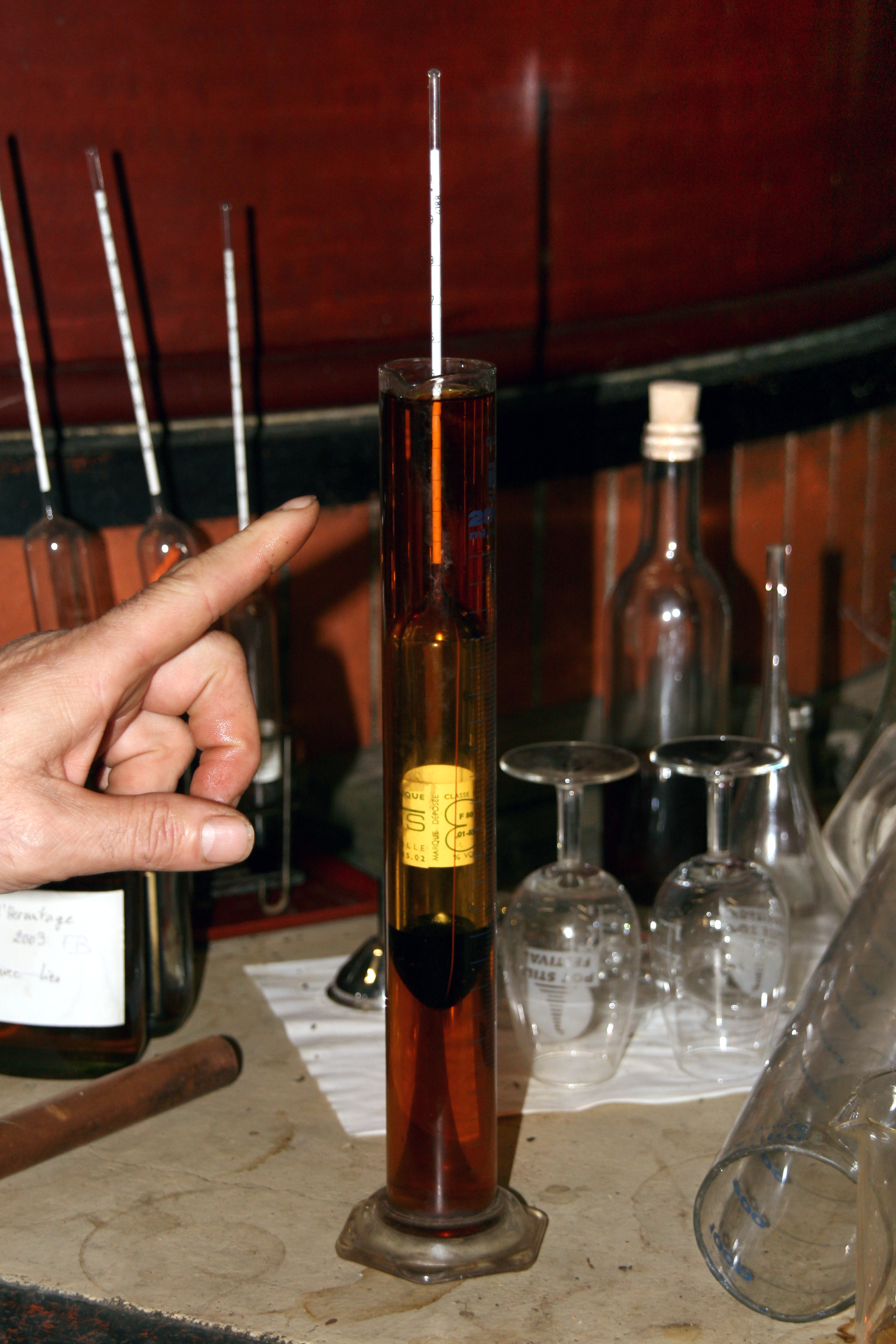 An alcoholmeter used to measure the alcoholic strength of a liquid. Here, the liquid in the tube is Cognac, at 44.5 % AWB. See also this Wine thermometer. Photo taken in a wine farm in Cherves de Cognac, Charente, Poitou-Charentes, France.